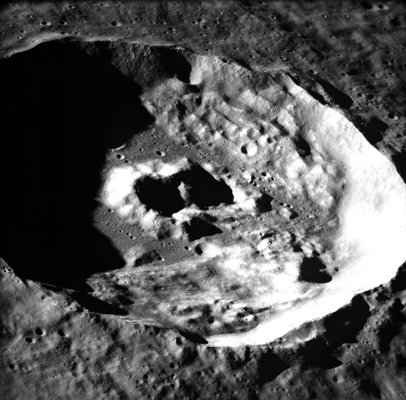 Plinius Crater (part of Apollo-17 panoramic photo AS17-P-2329)